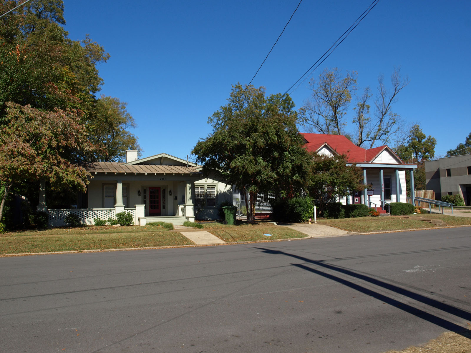 703 and 705 Ward Avenue in Huntsville, Alabama, part of the Five Points Historic District.